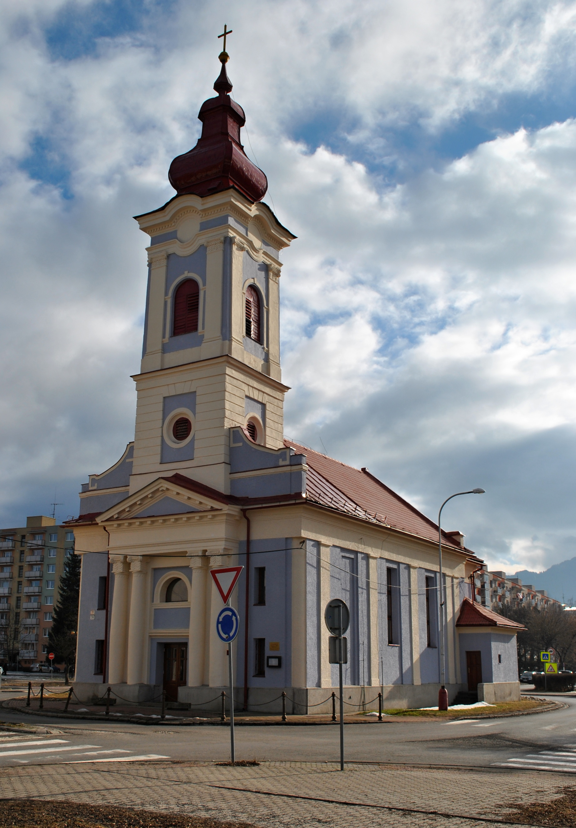 Liptovský Mikuláš, Slovakia - town district of Vrbica - Protestant (Lutheran) church after renovation in 2016